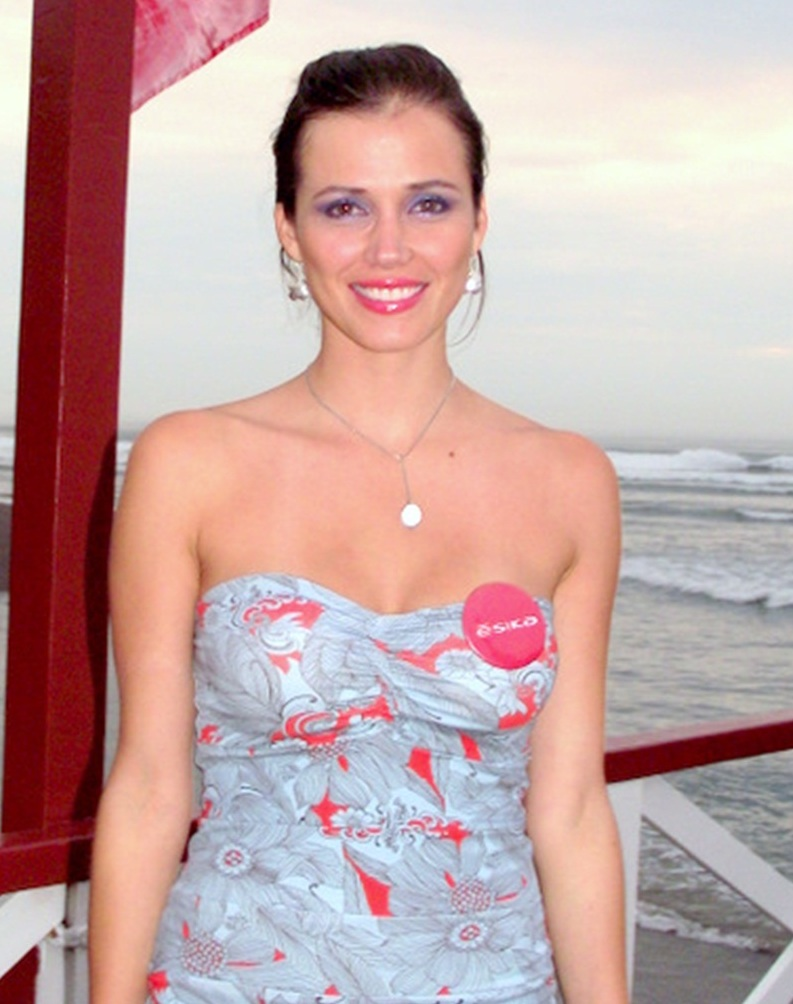 Maju Mantilla en Huanchaco Beach, Trujillo, Peru